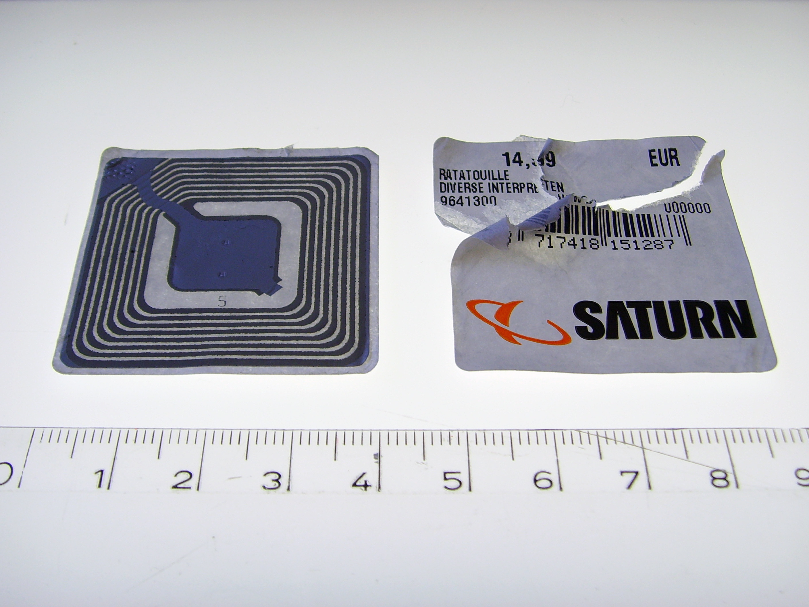 RFID Chip mit Resten eines Barcode Aufkleber, Sicherungsetikett auf einer DVD eines Elektrogeschäftes : RFID in a form of a sticker with bar code on the opposite side, security chip for a DVD Source: own work Date: March 11, 2008 Author: Maschinenjunge Licence: GFDL, cc-by 3.0